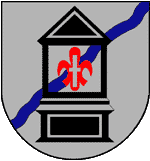 Coat of arms of Ernzen